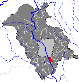 This map shows the area of the Gemeinde (municipality) Gössendorf in the Bezirk (district) Graz-Umgebung, Styria, Austria.